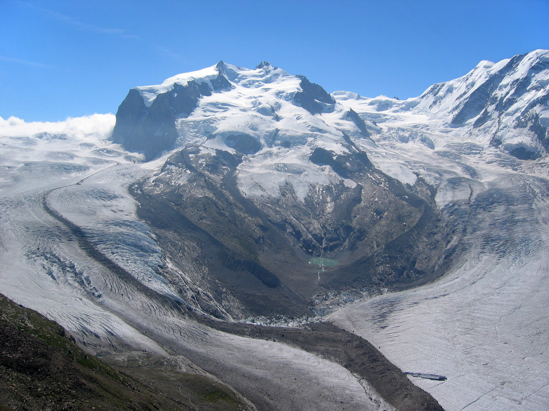 Monte Rosa Westside from Gornergrat, near Zermatt